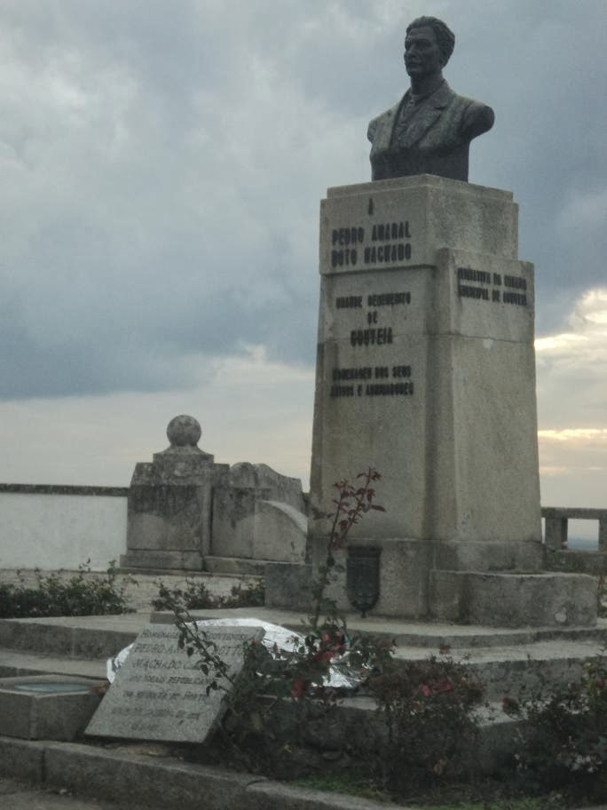 Pedro Amaral Botto Machado statue